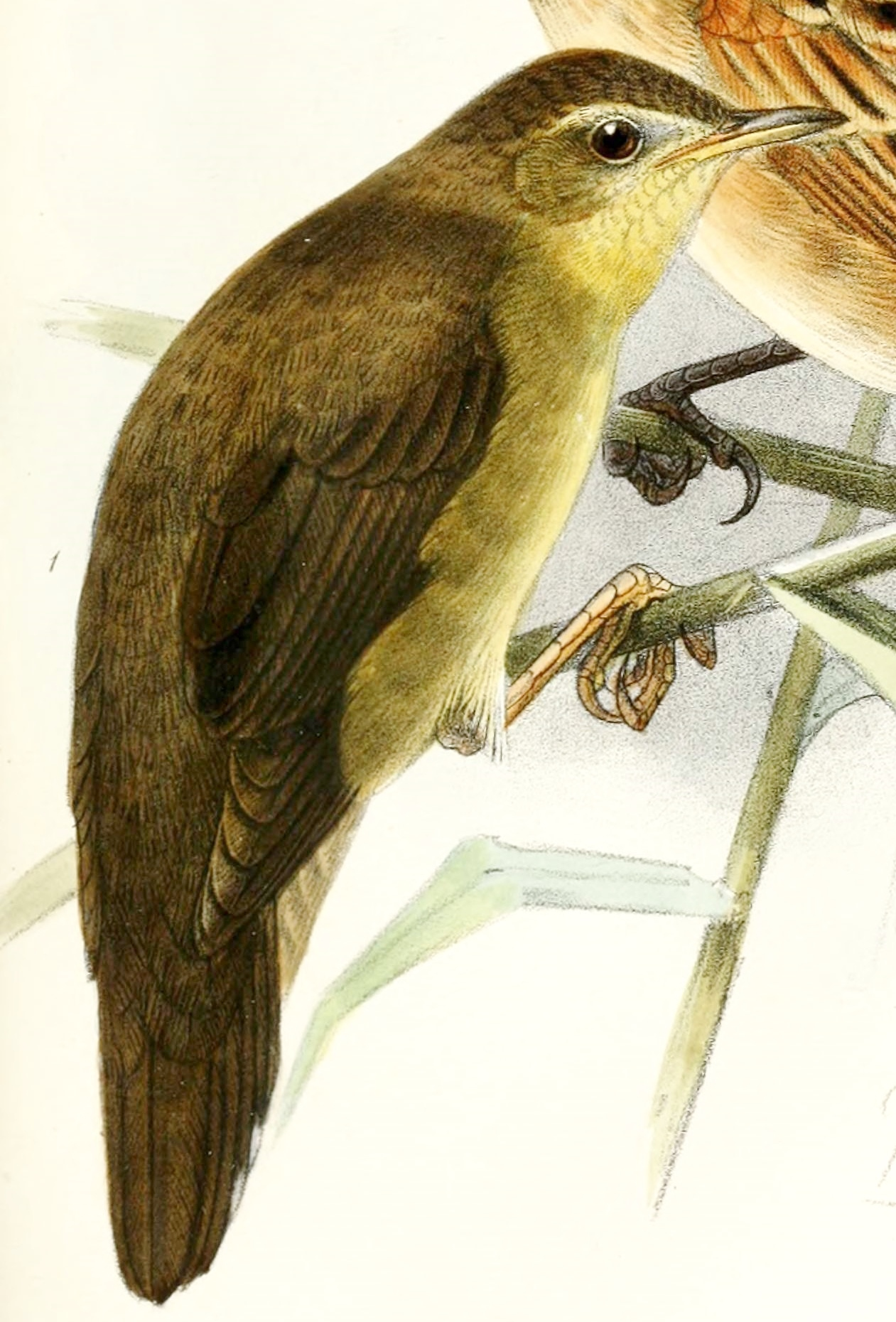 « Arundinax blakistoni » = Locustella ochotensis (Middendorff's Grasshopper Warbler)